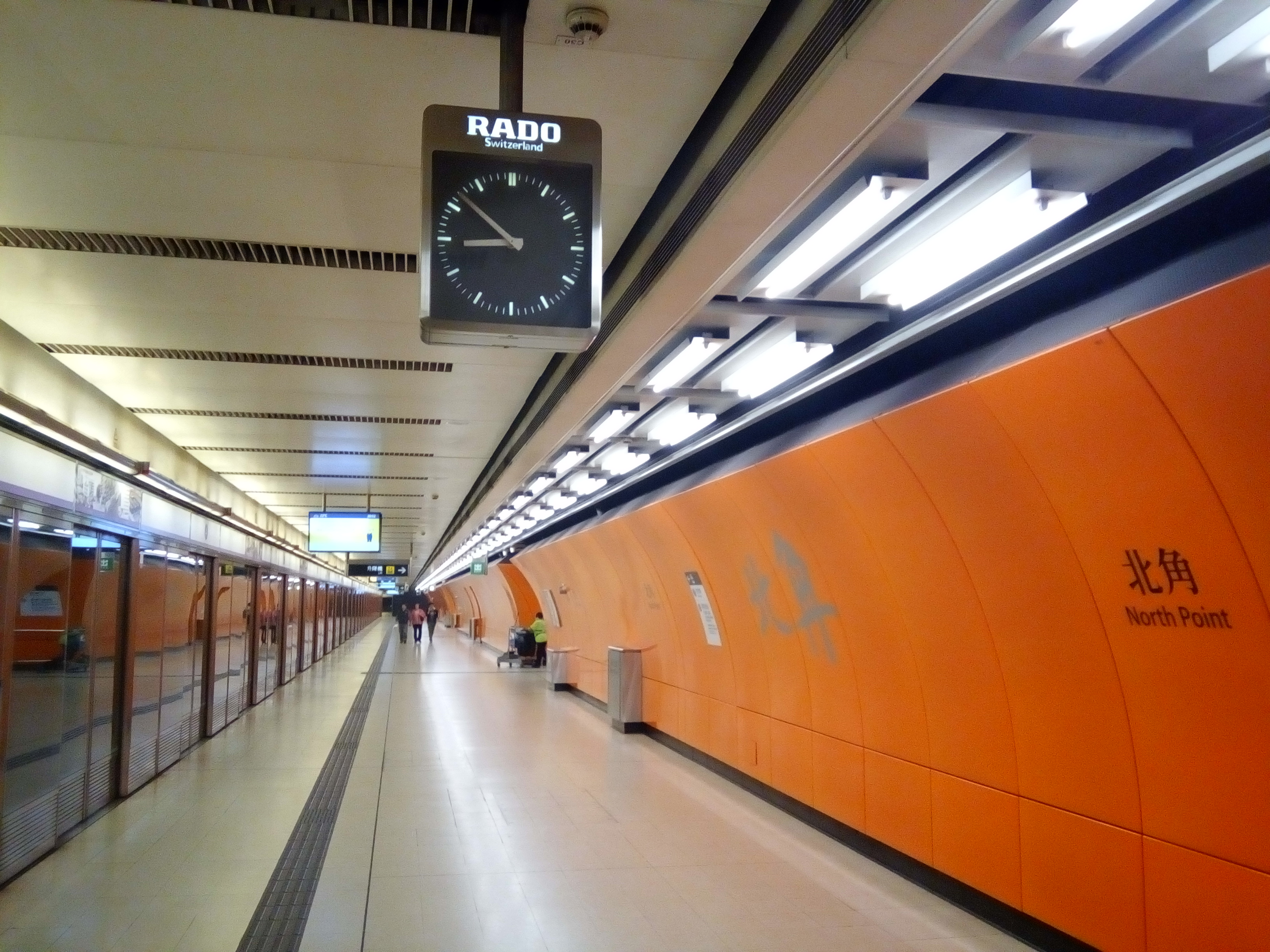 MTR North Point station Tseung Kwan O Line platform and clock 中文（香港）: 港鐵北角站將軍澳綫月台及時鐘